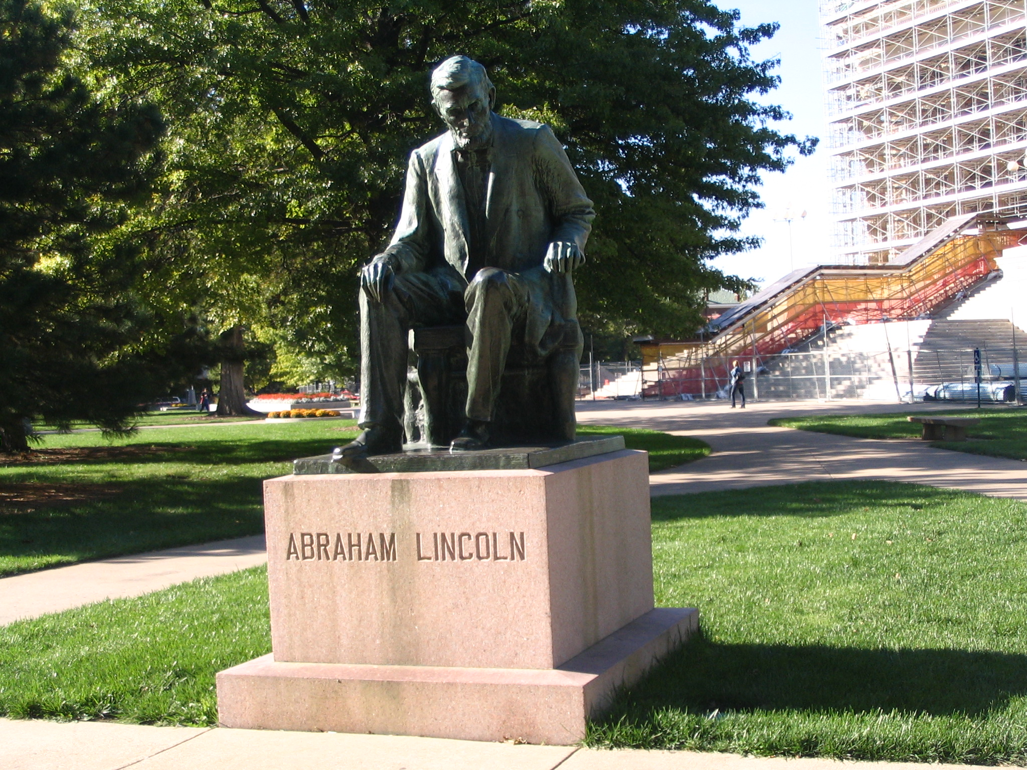 Statue of Abraham Lincoln in front of Capitol building